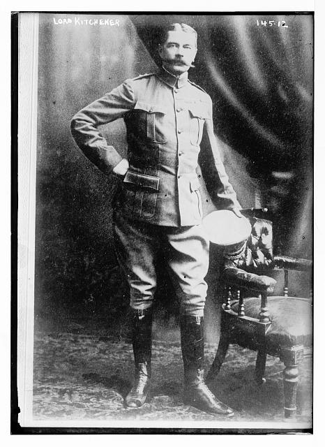 British Lord Kitchener in uniform, year unknown